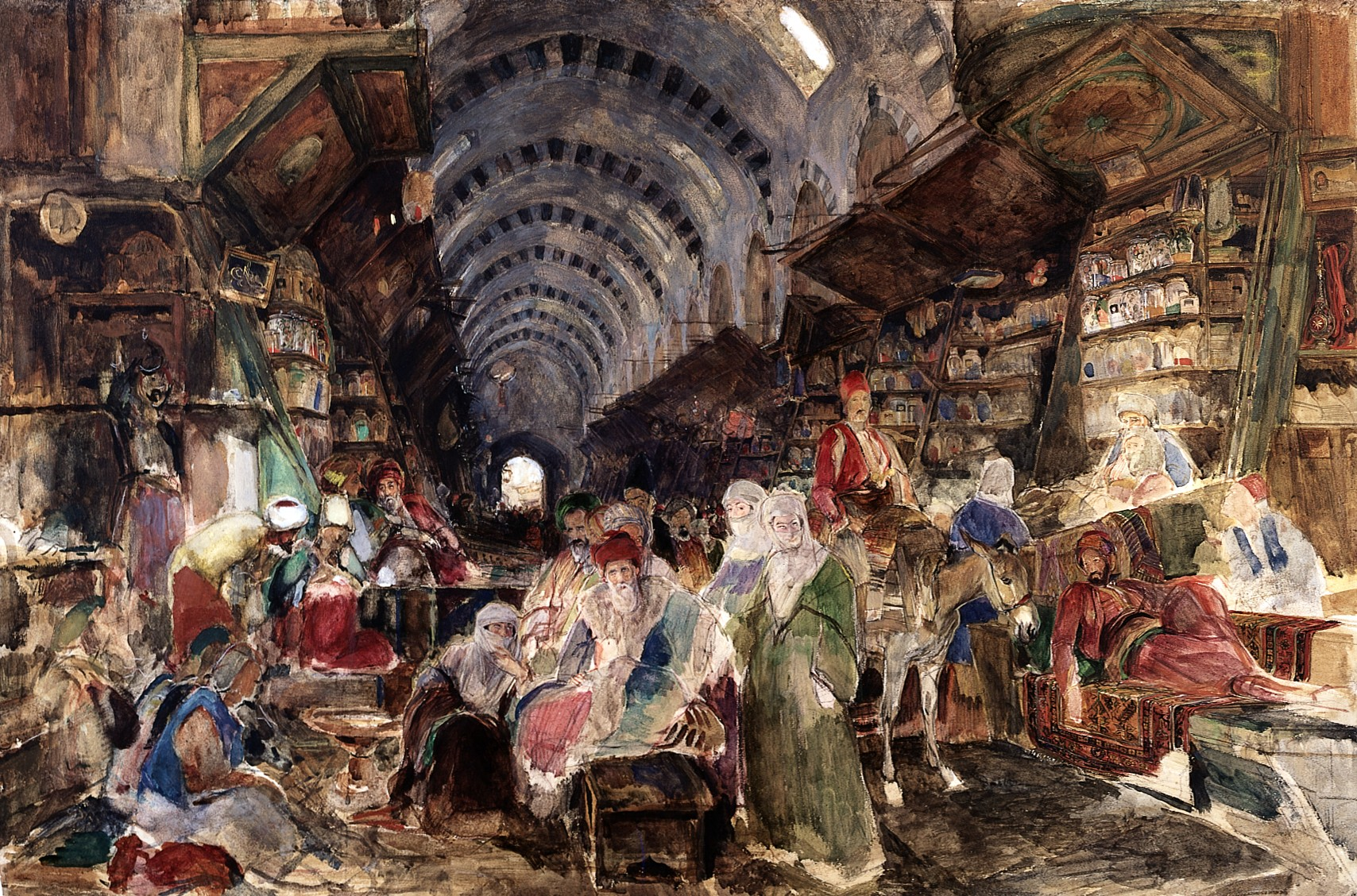 Istamboul bazaar. Iconographic Collections Keywords: G.F. Lewis